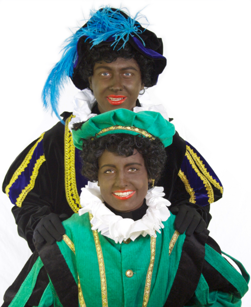 Two helpers from Sinterklaas.